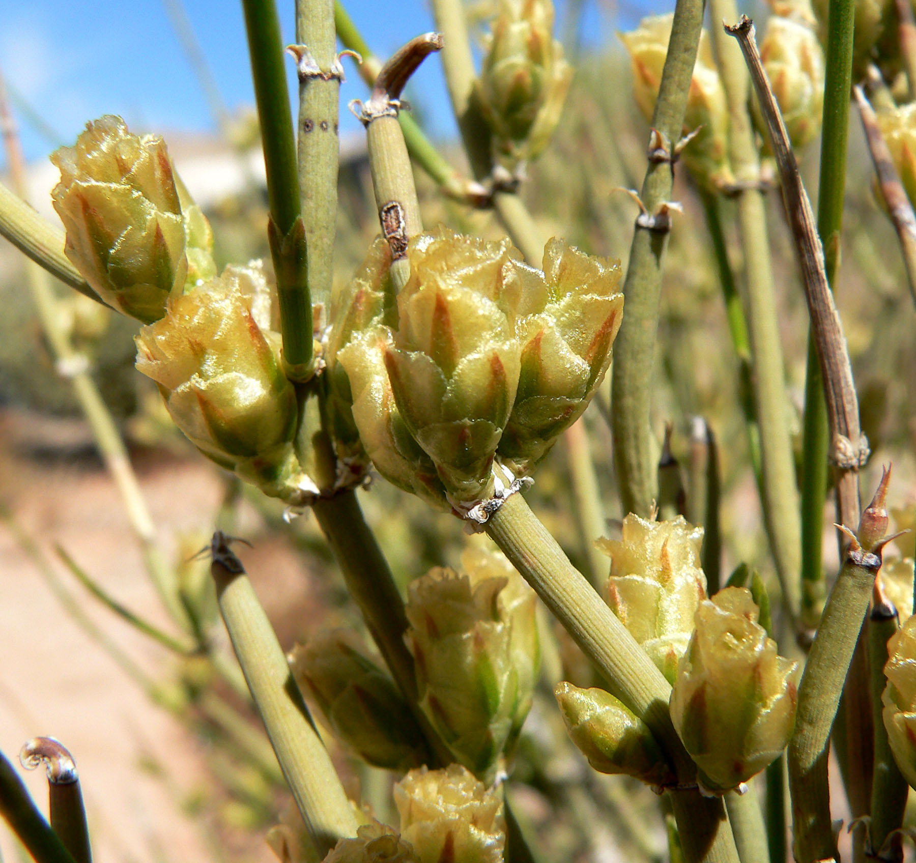 Ephedra torreyana in Government Wash near the crossing of Northshore Drive, Lake Mead, southern Nevada